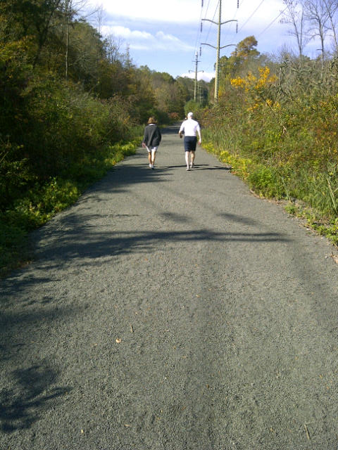 Walkers on the Ridgefield Trail Rail